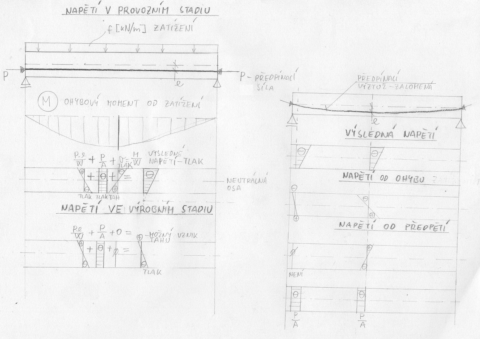 Tension in prestressed concrete